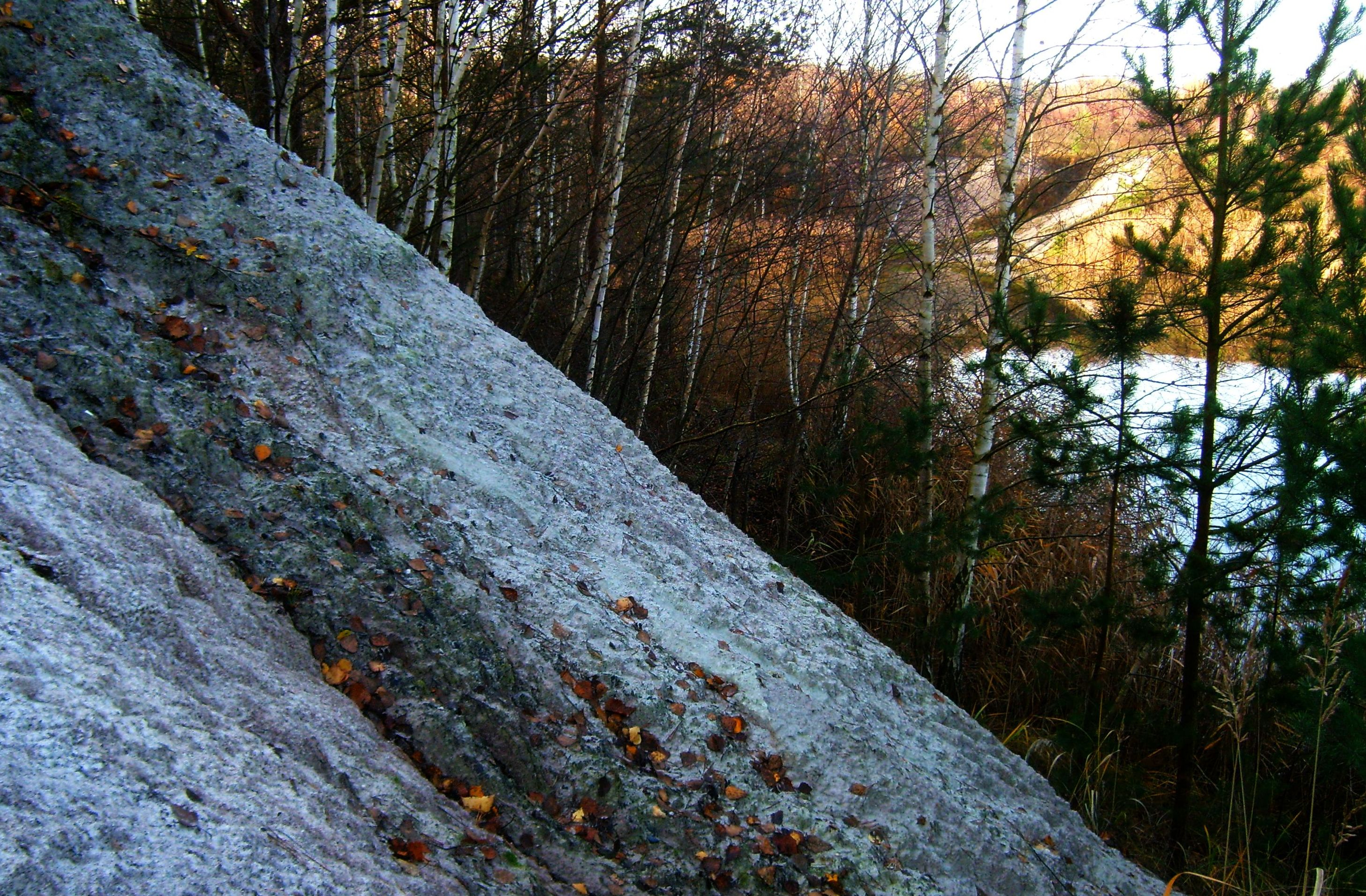 Former Kaolinite Mine near Lieskau, Sachsen-Anhalt, Germany.